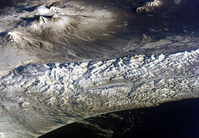 A group of isolated cinder cones lies near the Pacific Coast of Kamchatka at the lower right portion of this image (with north to the upper right). Large stratovolcanoes of the Kliuchevskoi group are visible at the upper left and include Zimina (far left), the twin sharp-topped peaks of Kamen and Kliuchevskoi, and above them the Ushkovsky massif. The two volcanoes at the upper right are Zarechny and Kharchinsky, of Pleistocene age.